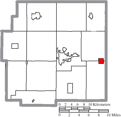 Map of the municipal and township boundaries of Wyandot County, Ohio, United States, as of the 2000 census, with the location of the village of Nevada highlighted. Township borders are shown only in unincorporated areas in order to differentiate incorporated and unincorporated areas more clearly.